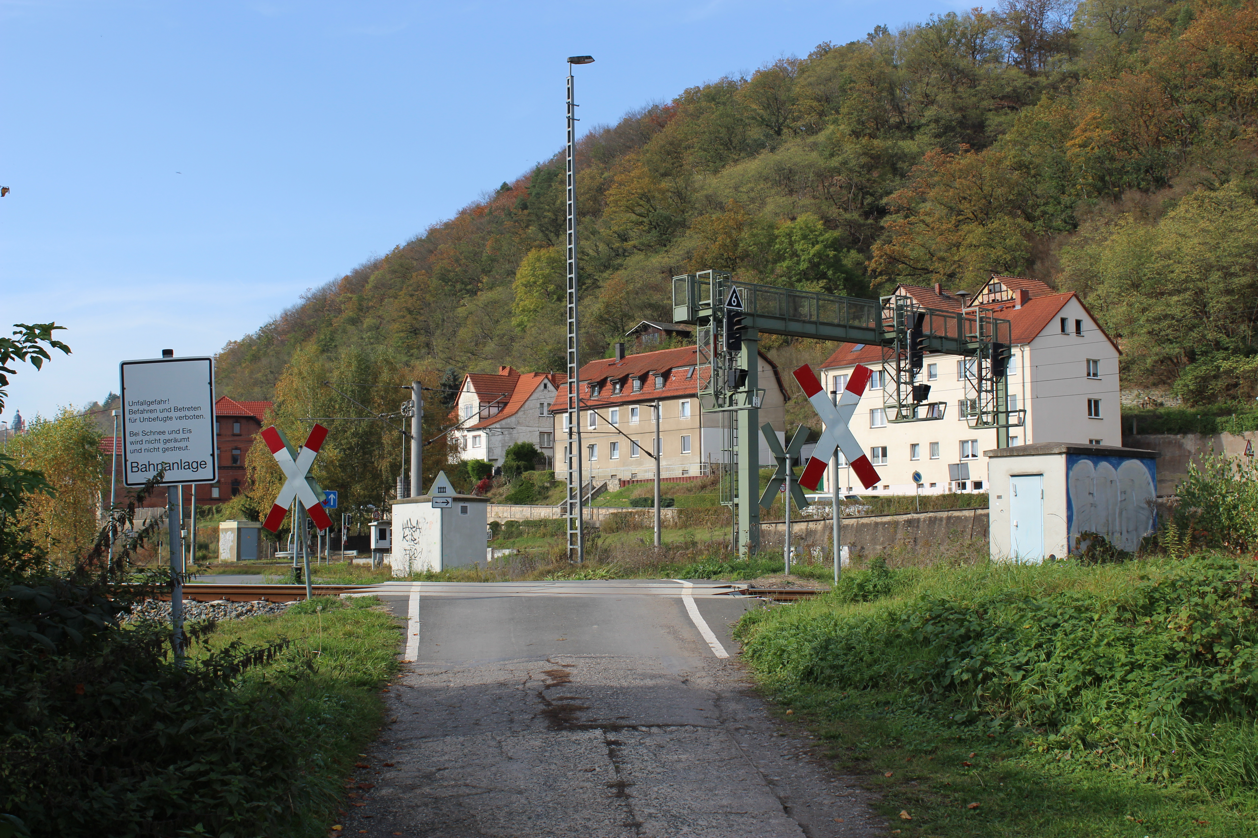 railway level on the Orlabahn in Orlamünde